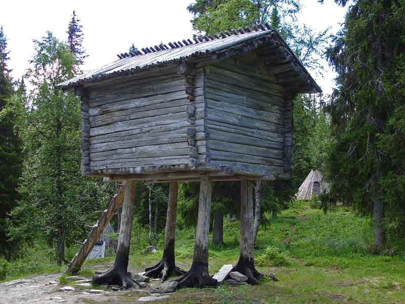 Sami storage house near Fatmomakke church in July 2008. Sami huts in the background.